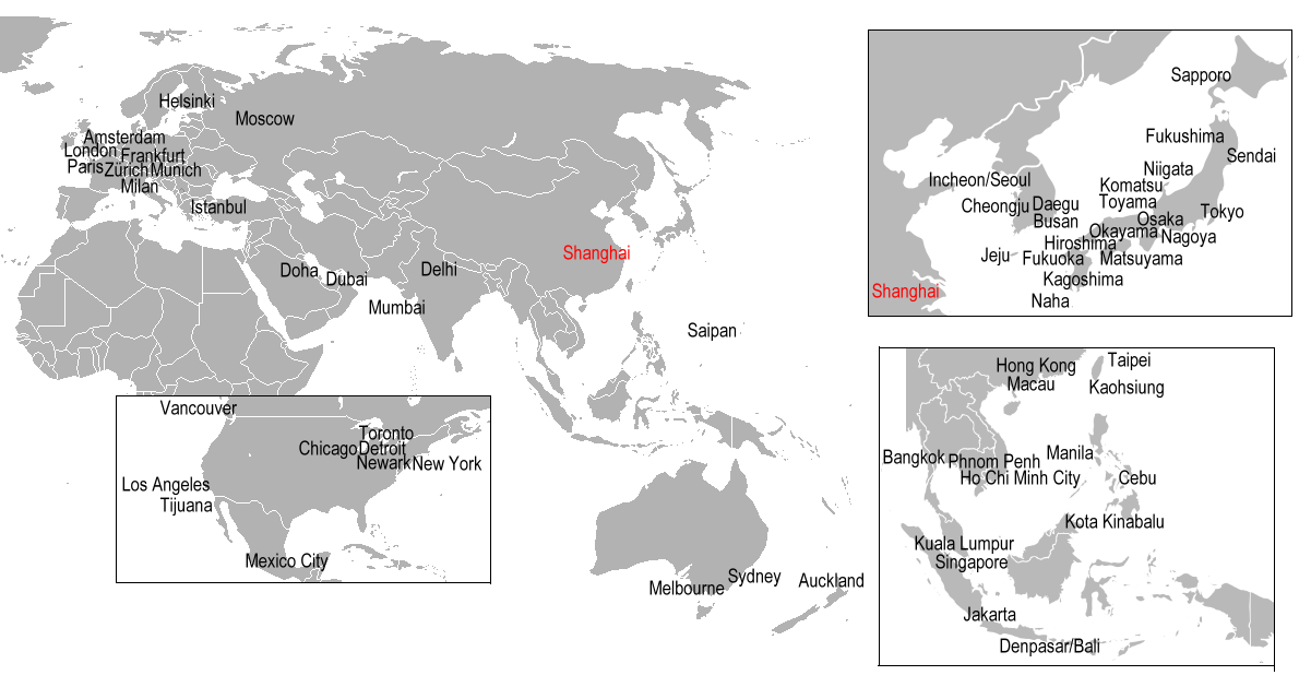 Direct international flights with CAN